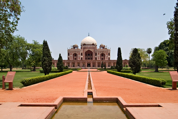 Humayun Mausoleum, Delhi, Indien own photo, may 25, 2005 photo: nomo/michael hoefner